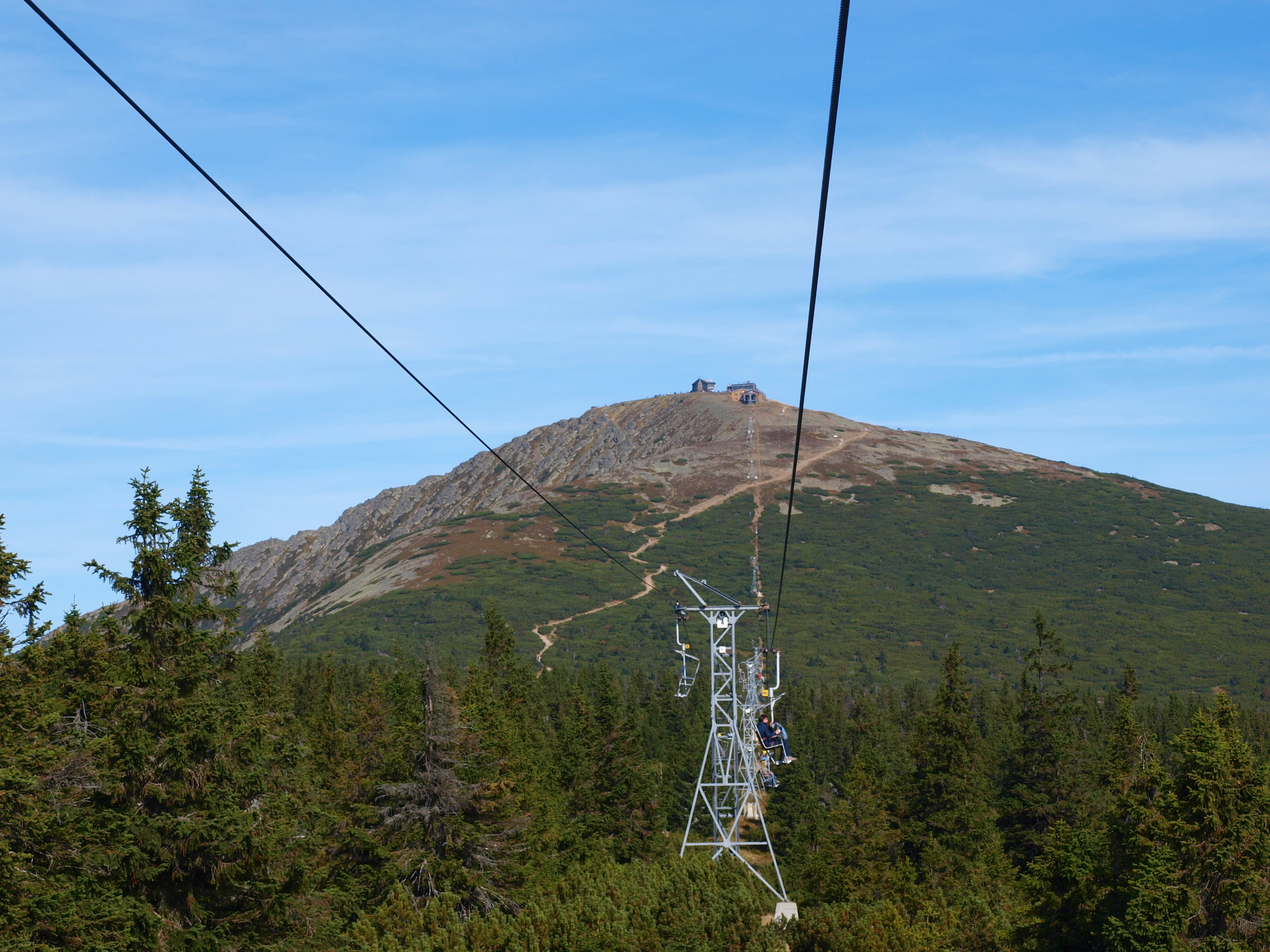 Cabelway Růžová hora – Sněžka, Krkonoše